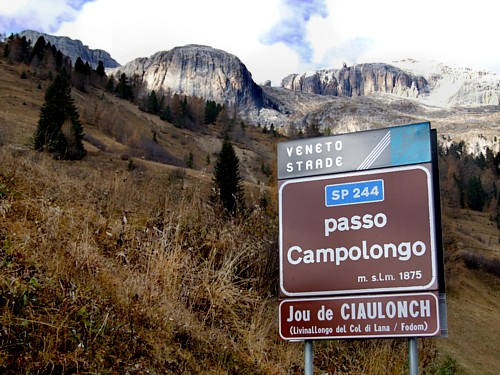 Passo Campolongo Picture taken by user Idéfix , november 1, 2006